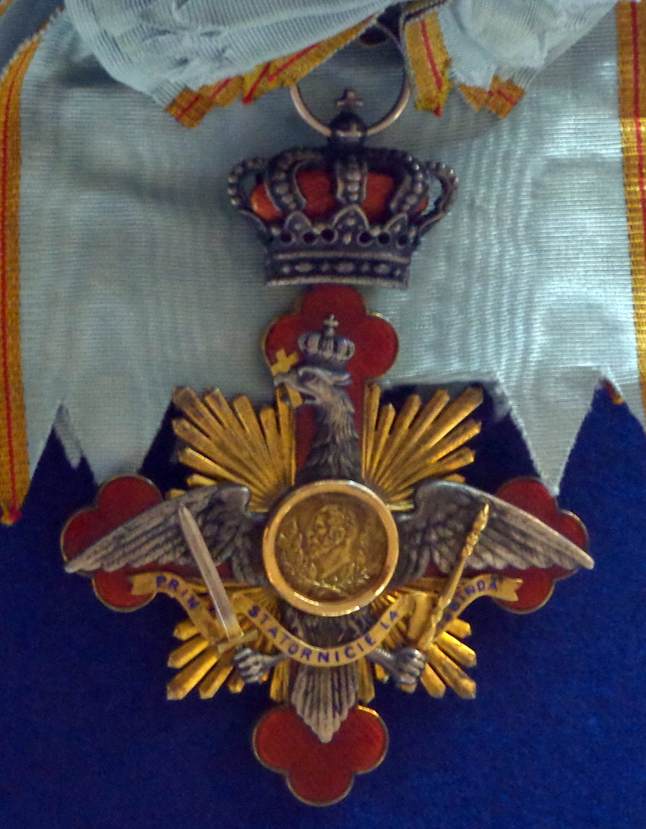 Order of Carol I, badge of Grand Cross, 1920-1930. Kingdom of Romania. The exhibition of the Tallinn Museum of Orders of Knighthood, Estonia.